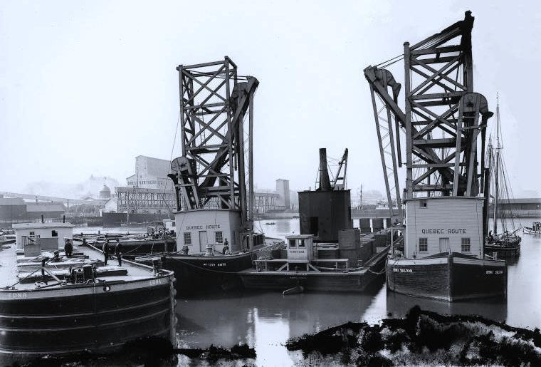 Photograph, Floating grain elevators, Port of Montreal, QC, about 1915, N. M. Hinshelwood, Silver salts, paint (opaquing) on glass - Gelatin dry plate process - 20 x 25 cm